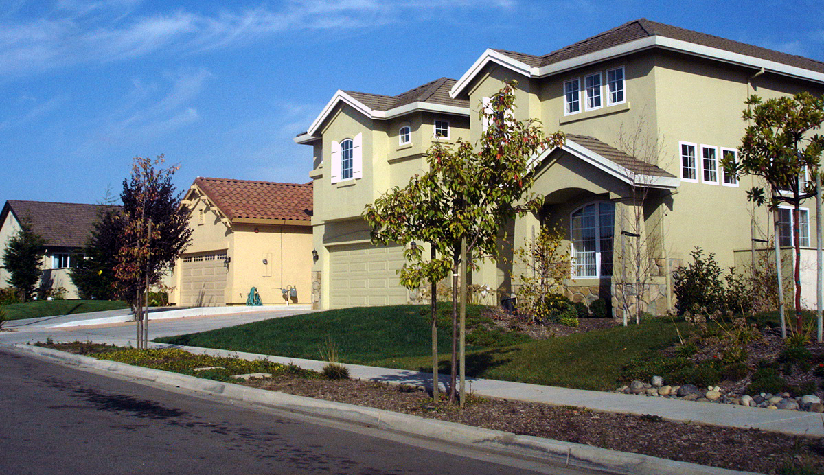 Neighborhood in the northern district of Salinas, California.